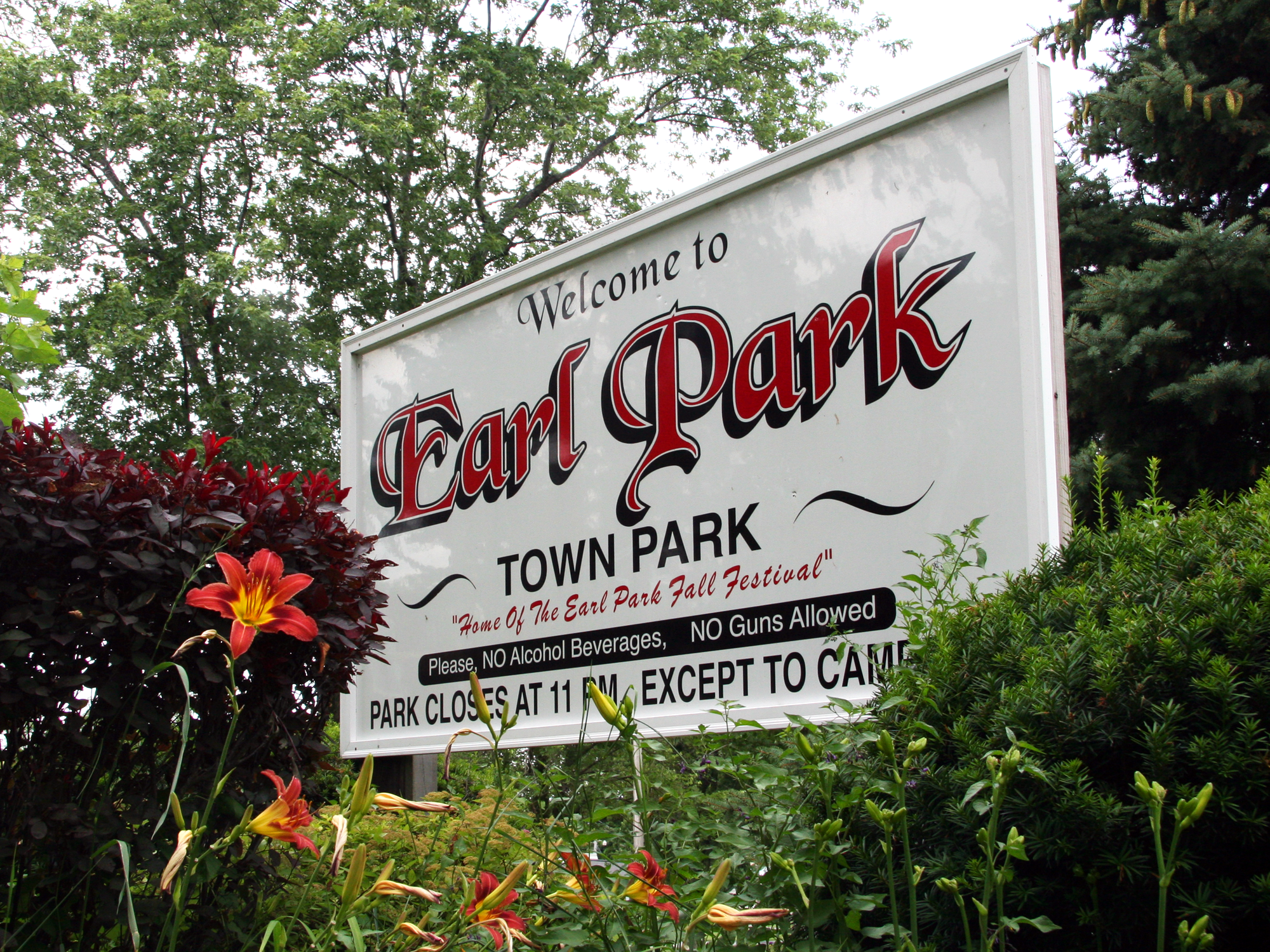 The entrance sign for the town park of Earl Park, Indiana.